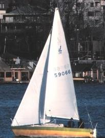 Sailing sloop